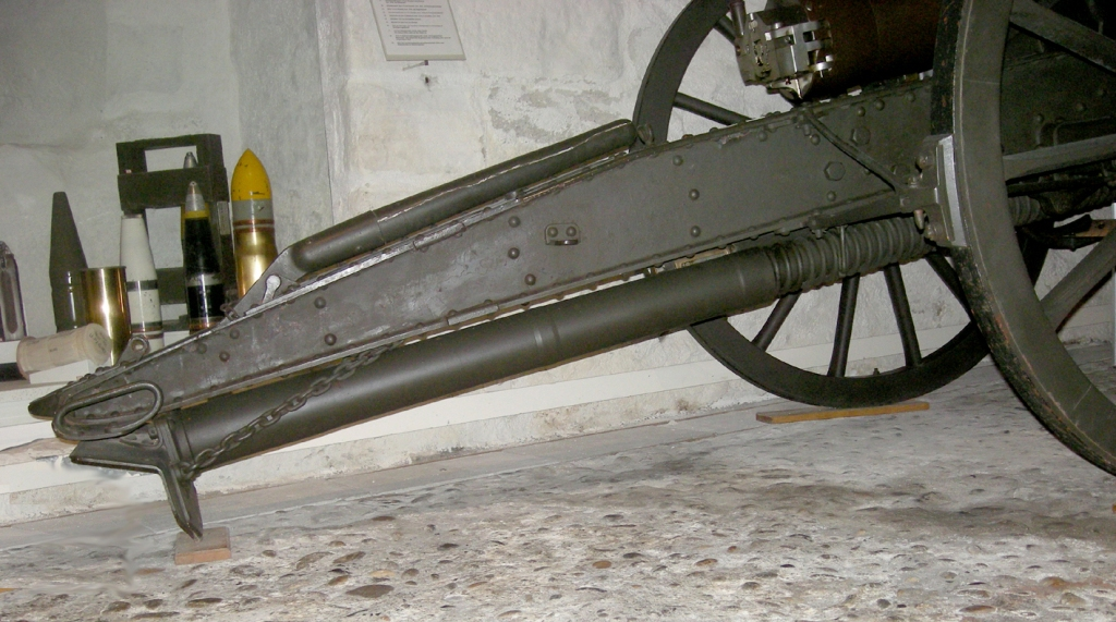 St. Chamond 1898 Spaten